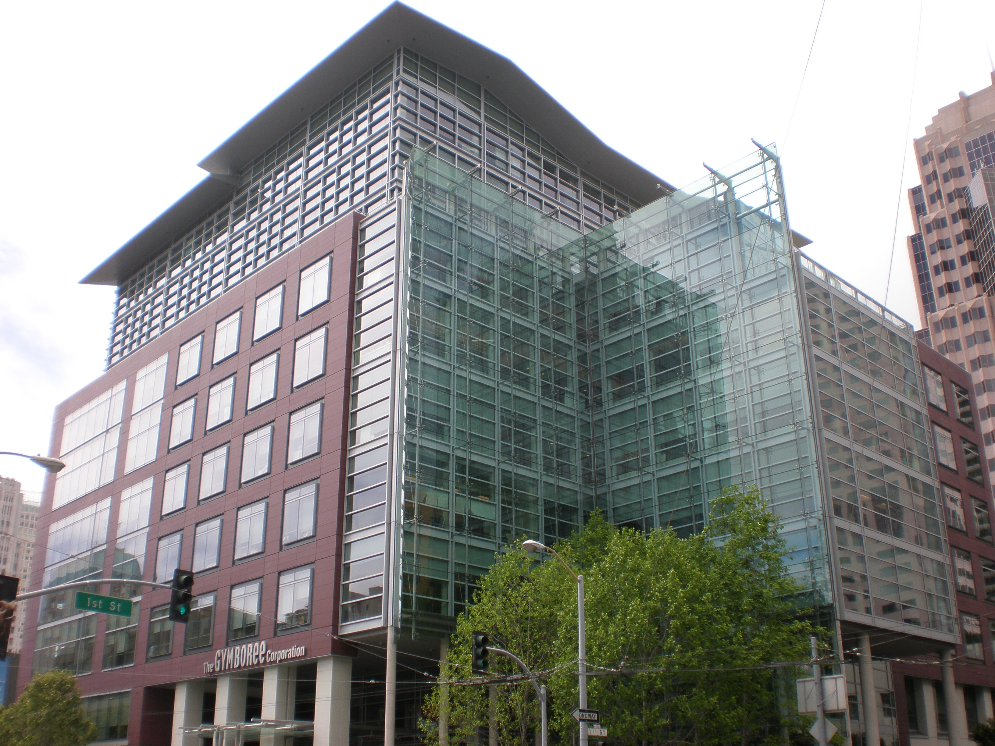 Gymboree headquarters at 500 Howard Street in San Francisco, California.